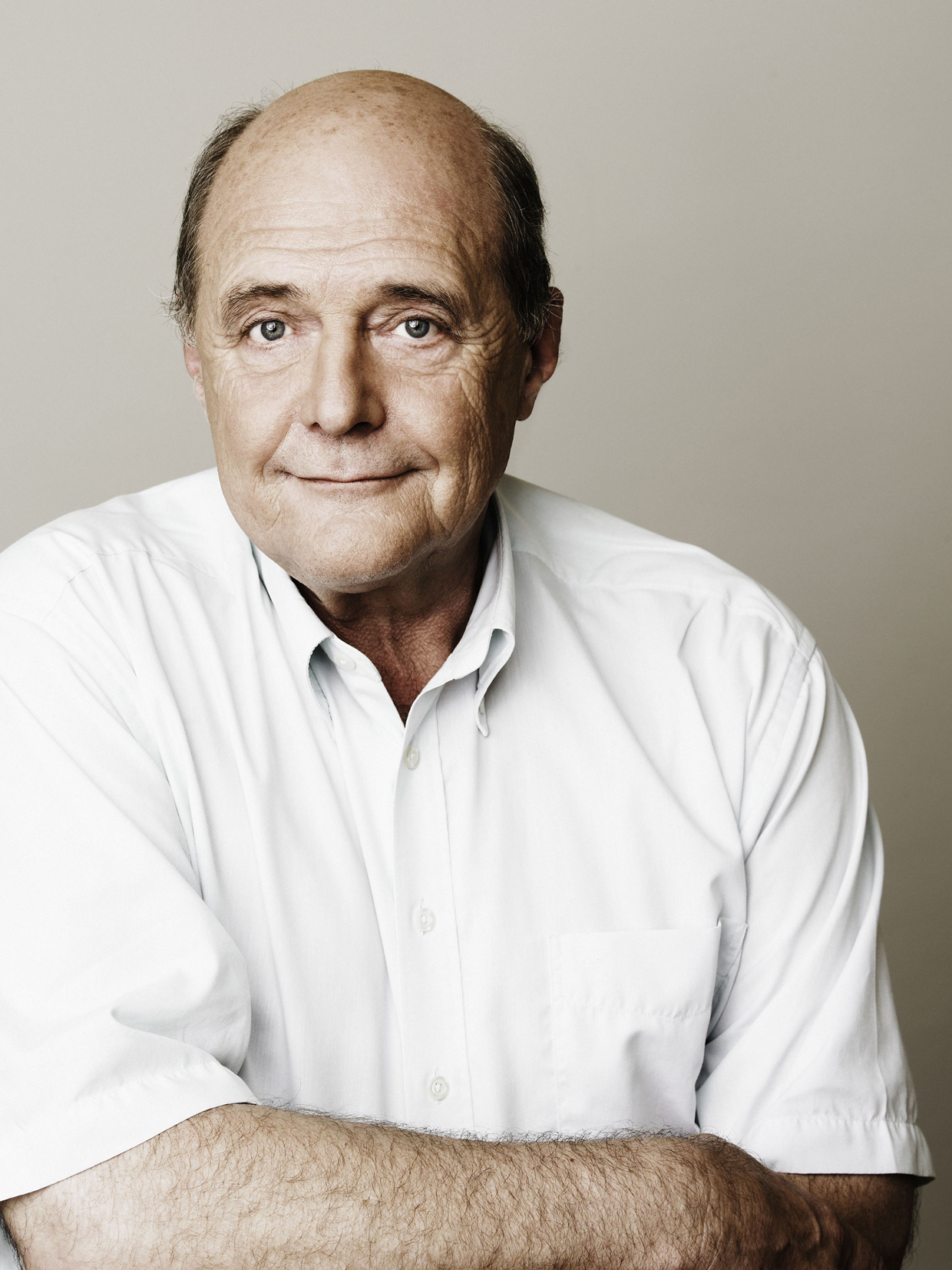 The austrian politician Kurt Grünewald, member of the Green Party of Austria